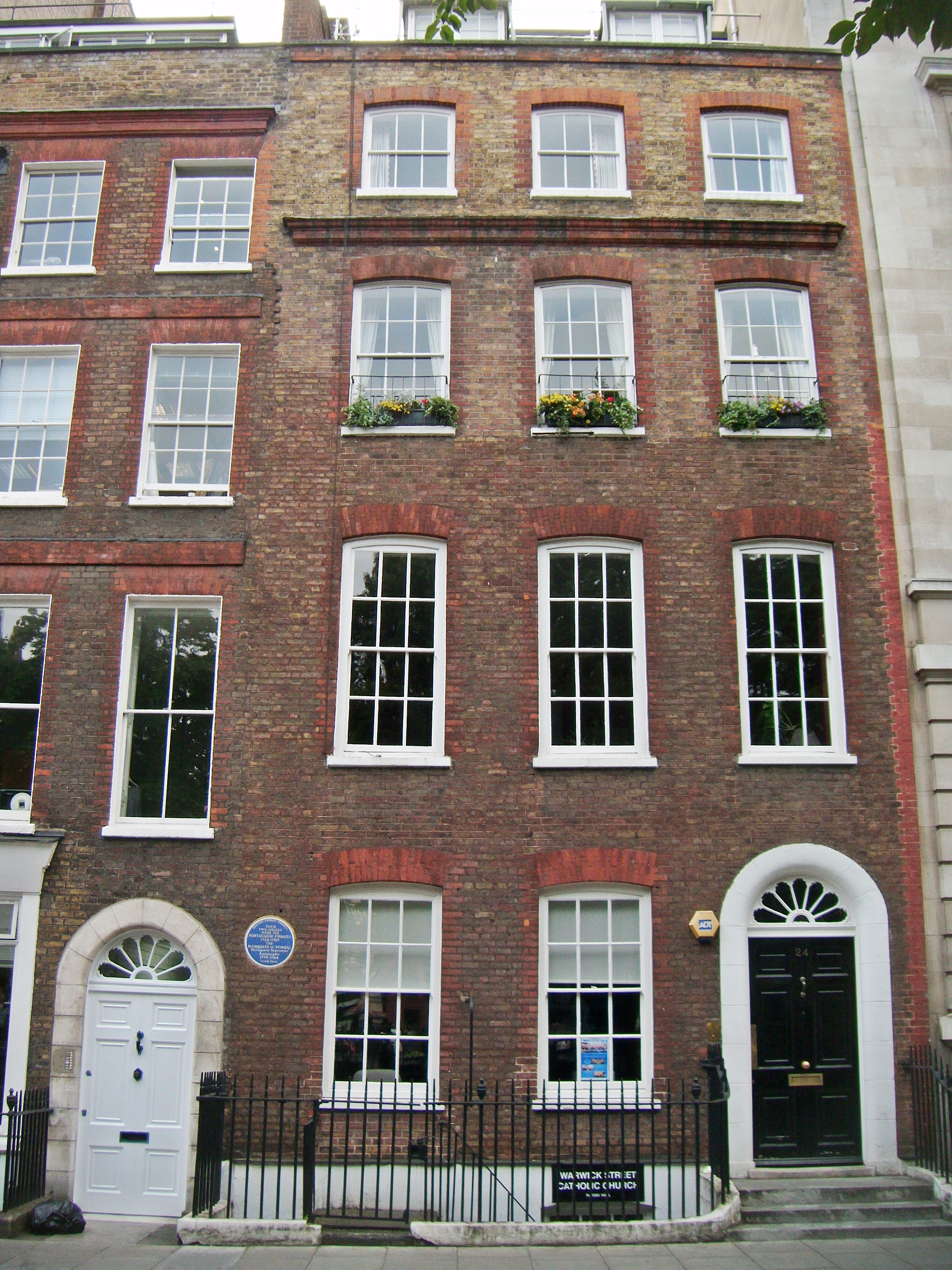 London, Golden Square 24: ehem. bayerisches Botschafts- bzw. Gesandtschaftsgebäude und Residenz des bayerischen Gesandten